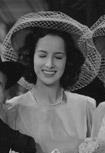 Soledad Marco-actriz